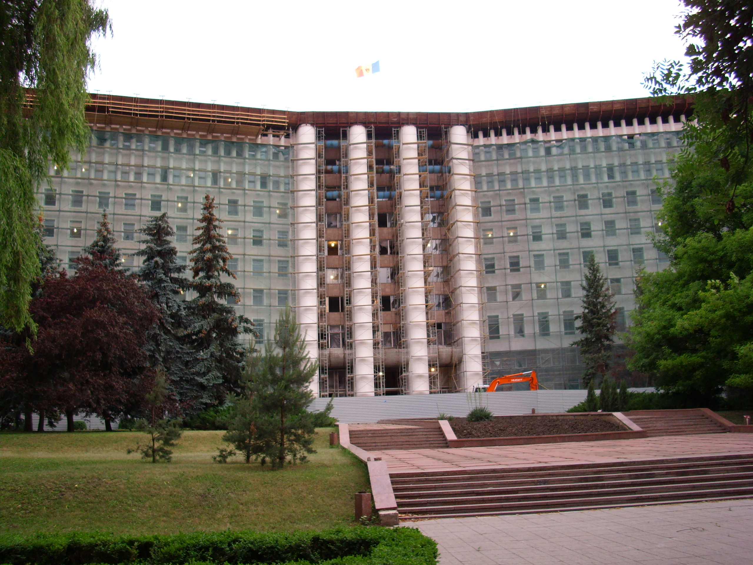 Moldova - Chisinau / Kishinev / KIV: the parliament - Sfatul Tarii - formerly the Central Committe of the Communist Party of Moldova - boulevard Stefan Cel Mare, former boulevard Lenin - architects A.N.Cherdantsev and G.N.Bosenko